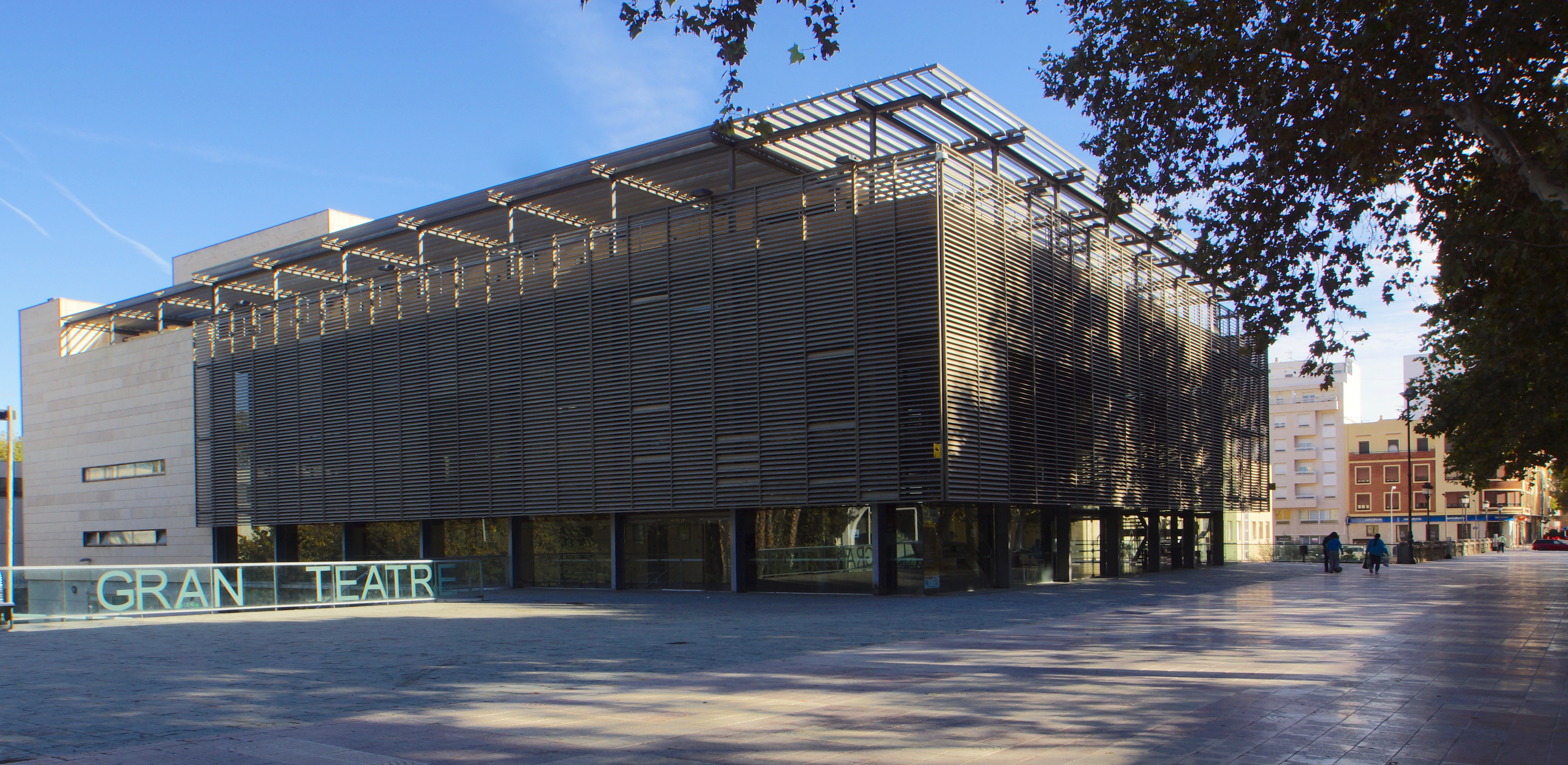 Xàtiva, Land of València: Gran Teatre